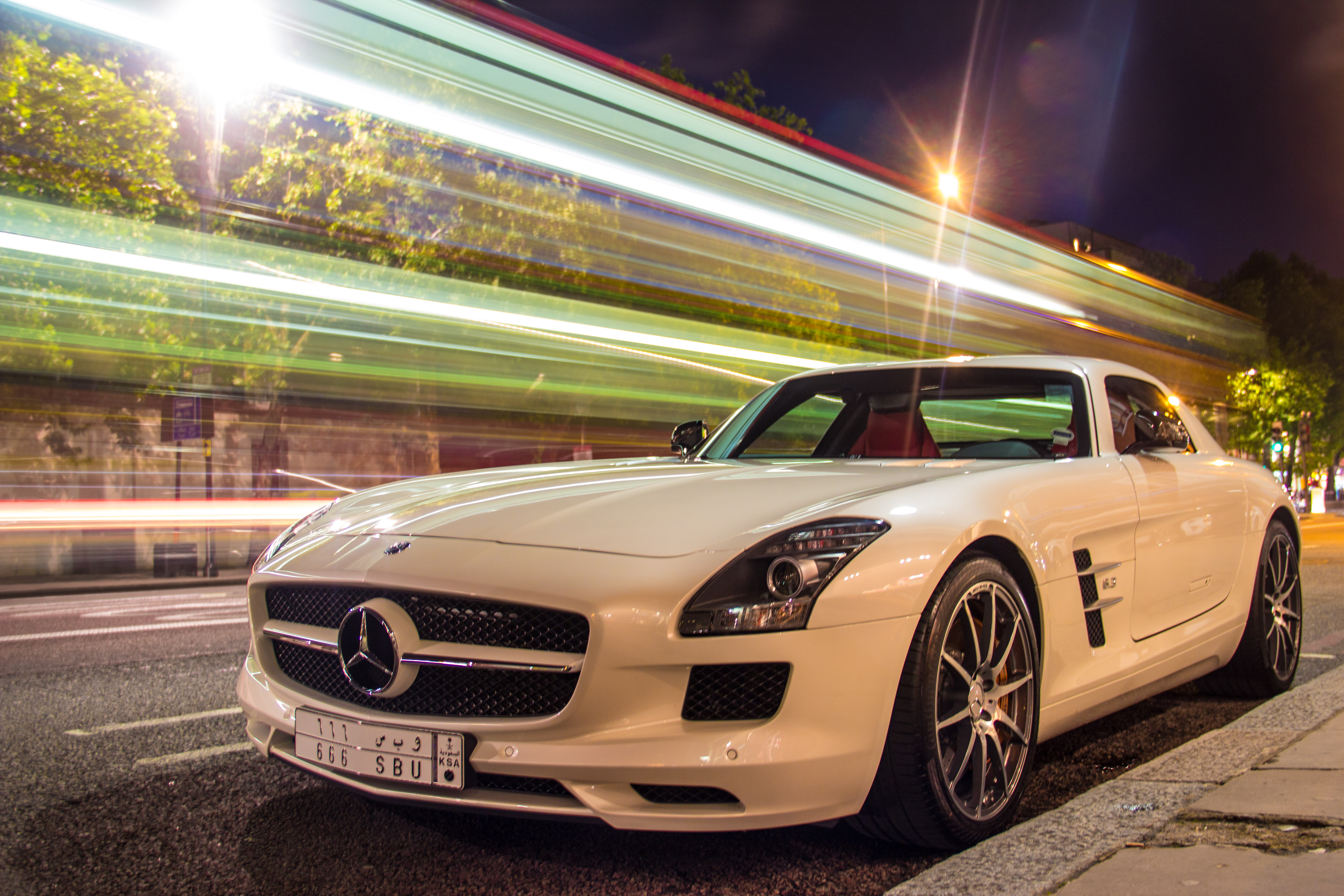 Night